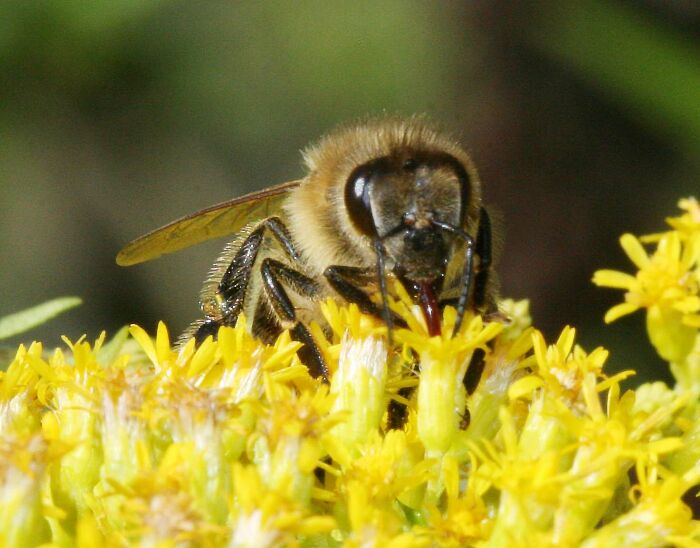 Description: Honey bee on calyx of goldenrod